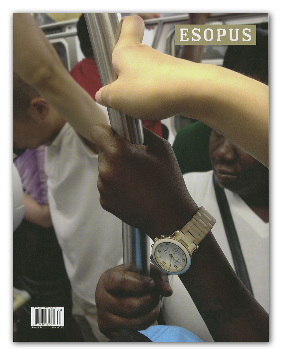 This is the cover for Esopus 24, an issue of Esopus from 2017.